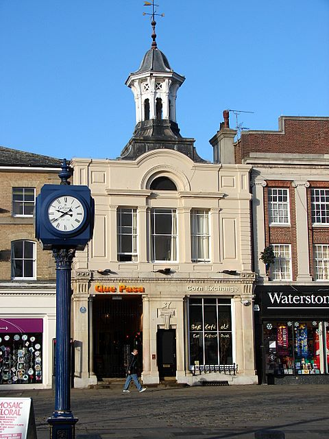 Hitchin Town Clock and Corn Exchange The clock was donated to the town to celebrate the Millennium by Gatwards Of Hitchin, a jewellers established in 1760.